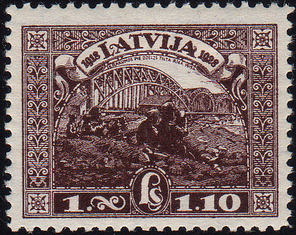 Semi-postal postage stamp issued by Latvia 1928 depicting view of Riga, Latvia.